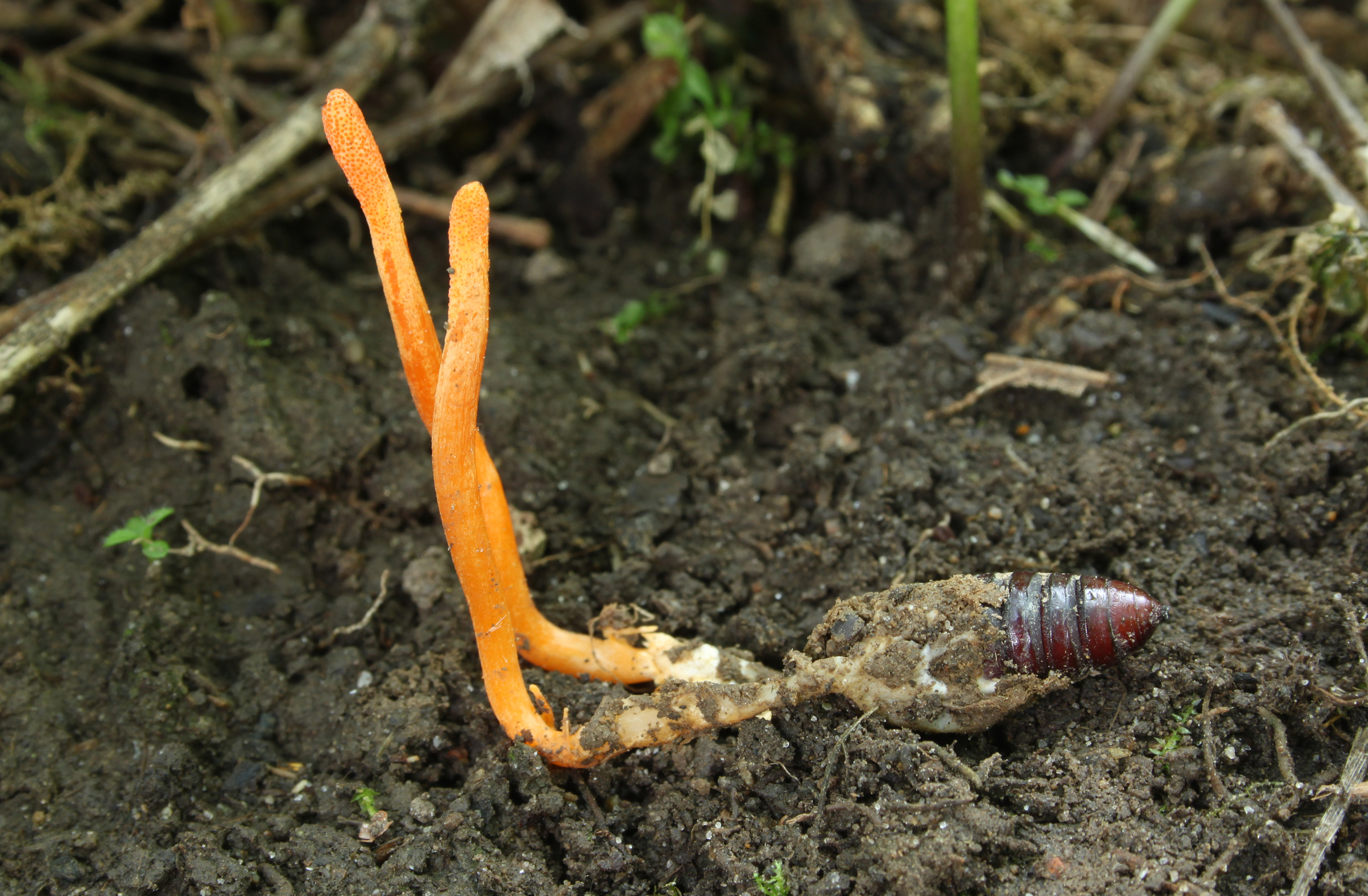 Cordyceps militaris, Family: Cordycipitaceae, Location: Germany, Erbach, Ersingen